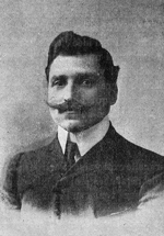 Dr. Nazim Bey (Doktor Nâzım Bey).